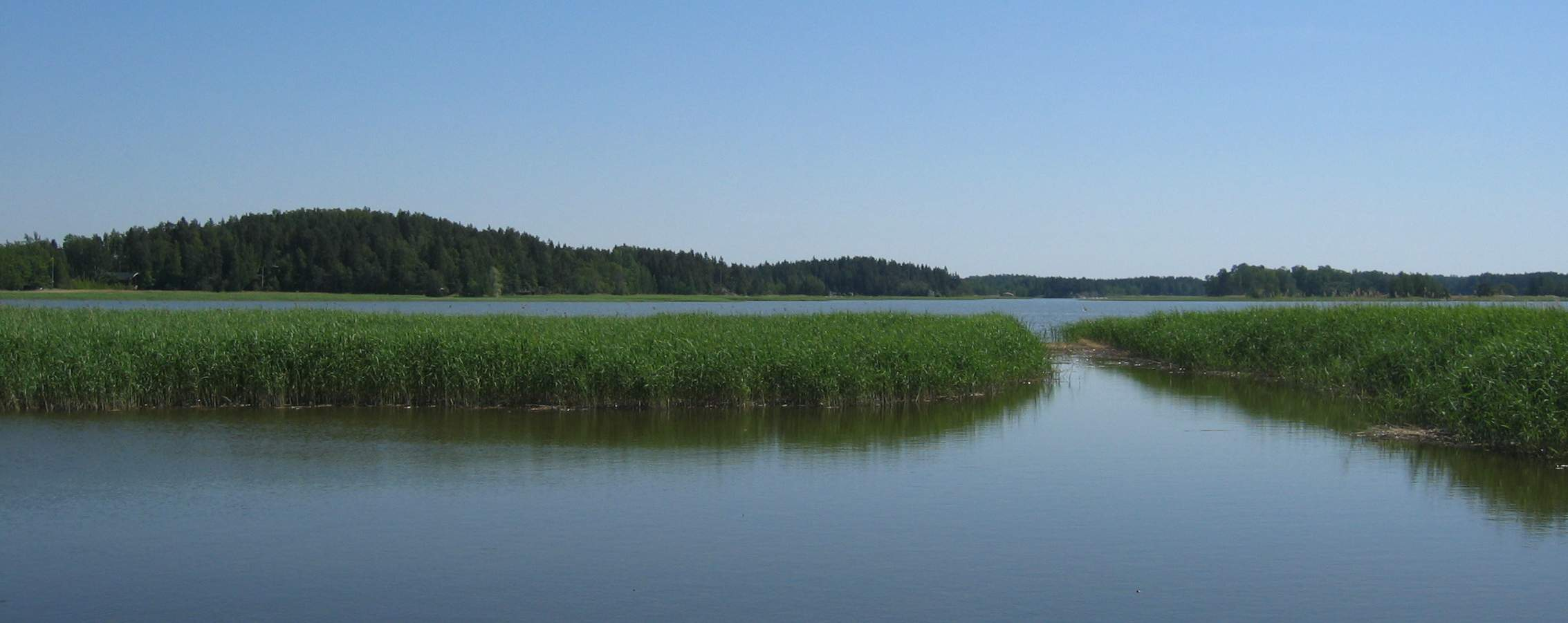 View from Kuurnanpää, Lemu, Finland